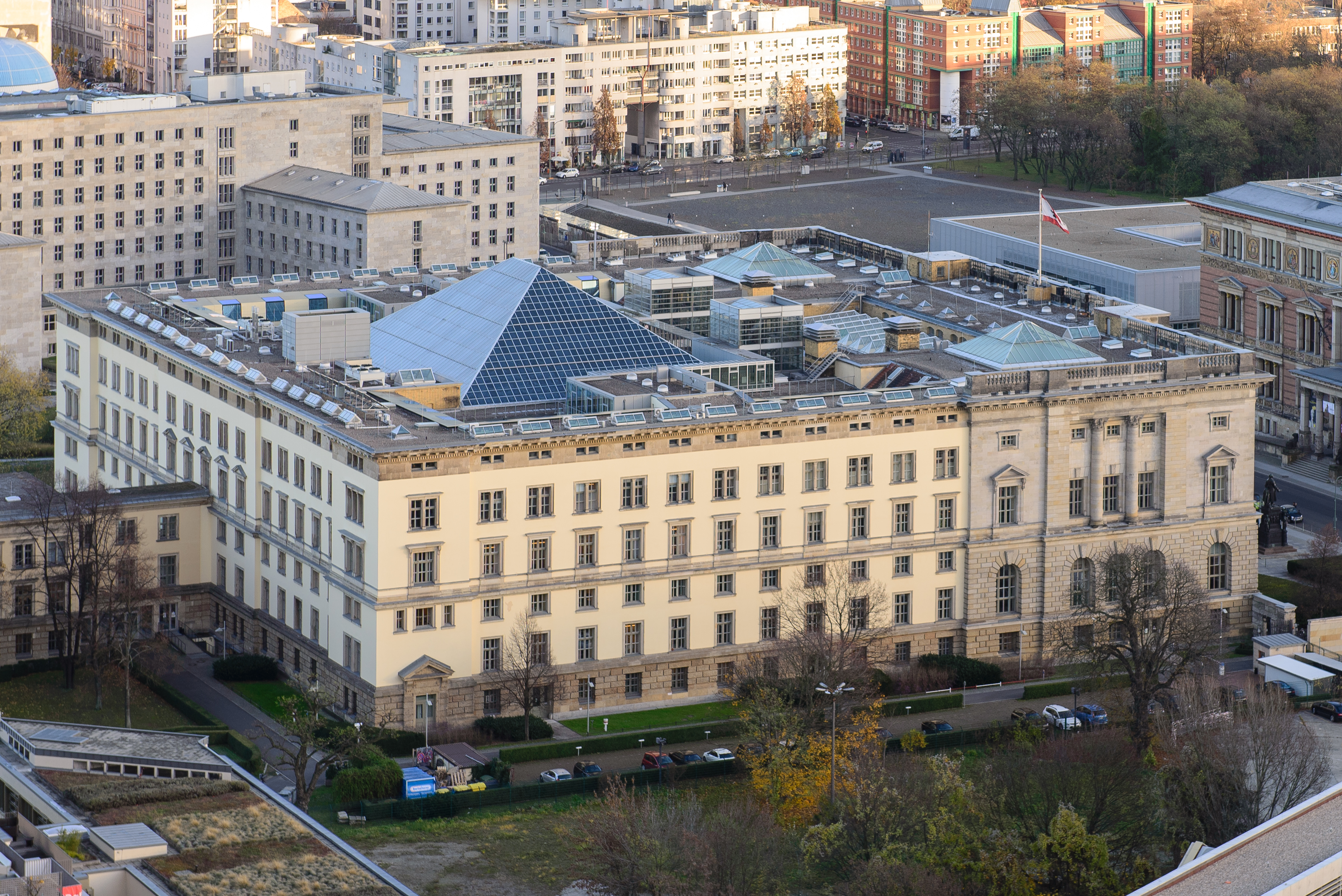 Preußischer Landtag building in Berlin. Today home to the Abgeordnetenhaus of Berlin, the state parliament (Landtag).